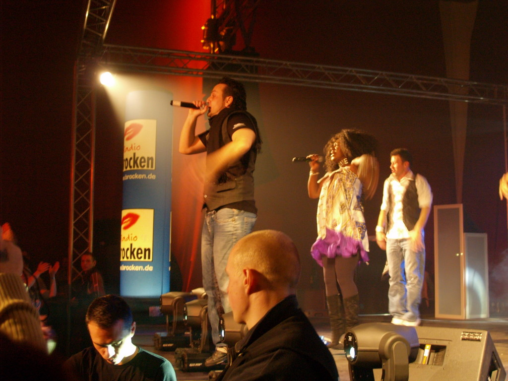 Culture Beat, 2008.